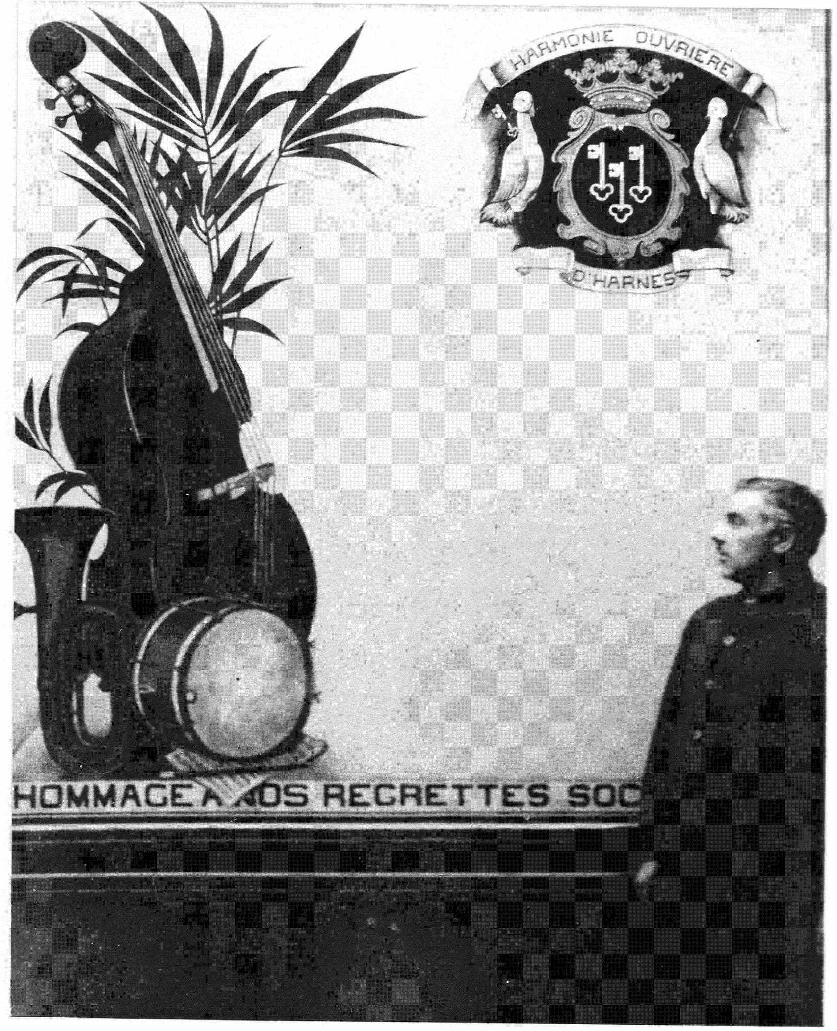 Mémorial de l'Harmonie de Harnes (1935)